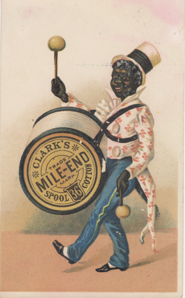 Persistent URL: Subject (TGM): Men; Ethnic groups; Ethnic stereotypes; Caricatures; Drums; Marching; Marching percussion; Thread industry; Sewing equipment & supplies; Keywords: Clark's Mile-End Spool Cotton